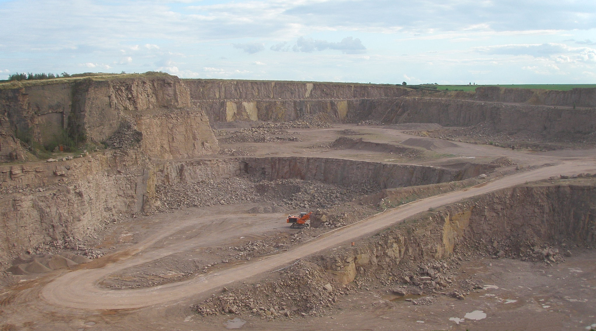 Rhyolite quarry west of Löbejün, about 10 km north of Halle (Saale), Saxony-Anhalt, eastern Central Germany. View ist to the south. The geologic age of the rhyolite ist latest Carboniferous or earliest Permian (Lower Rotliegend).